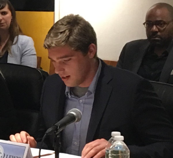 JT Lewis speaking to U.S. Education Secretary Betsy DeVos in 2018.